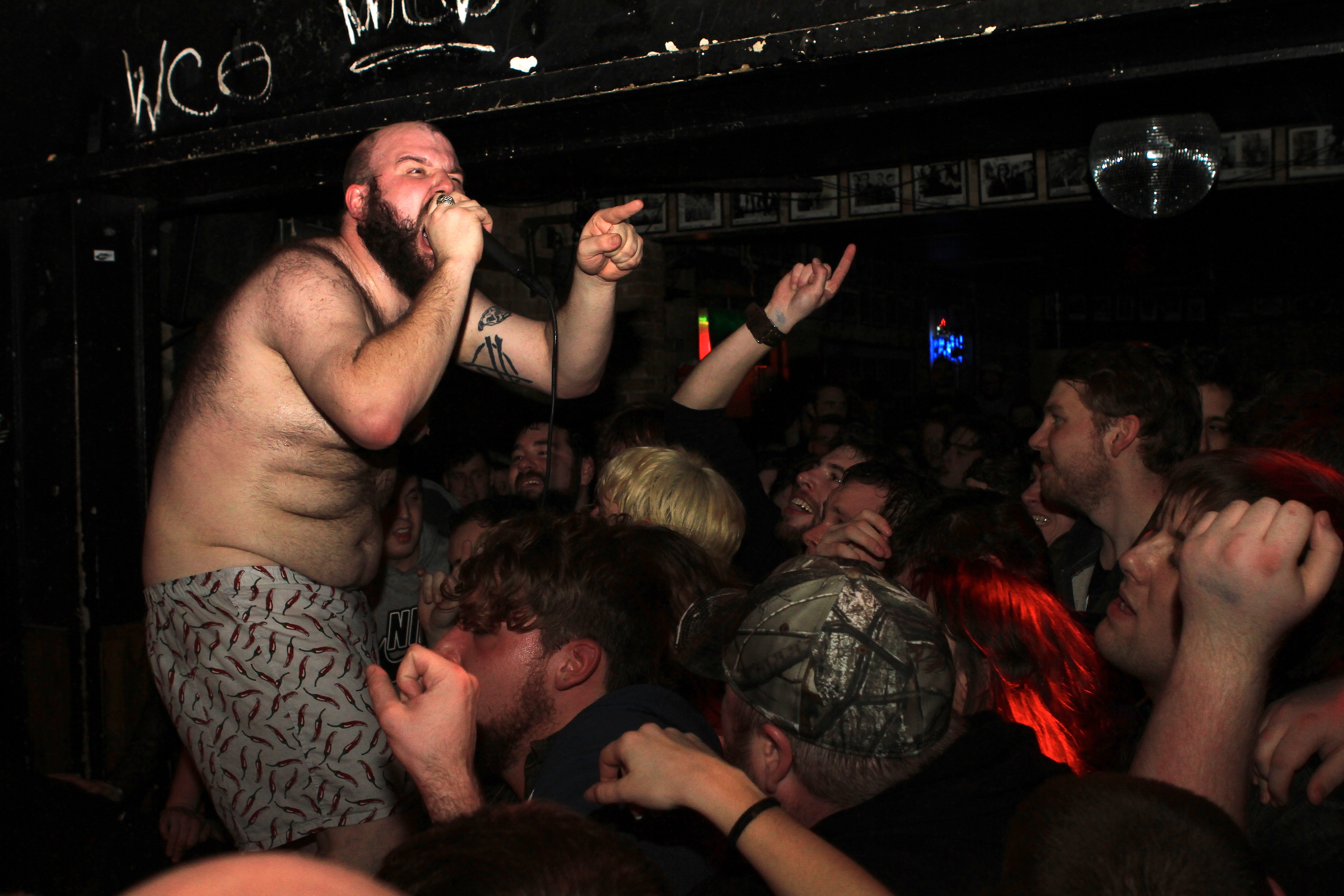 Call The Office / London, ON / January 18, 2013